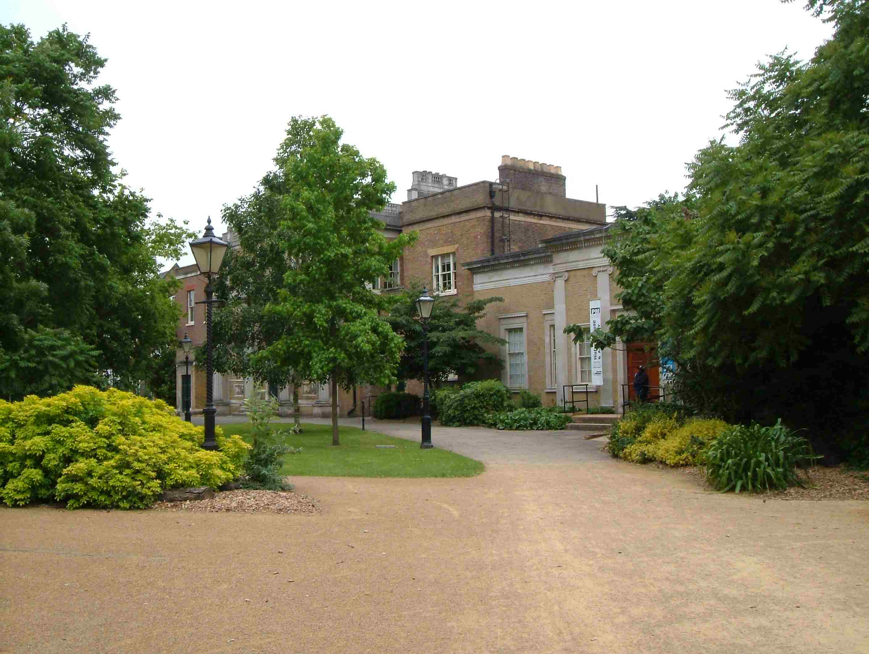 Walpole Park Museum, Ealing, London, United Kingdom